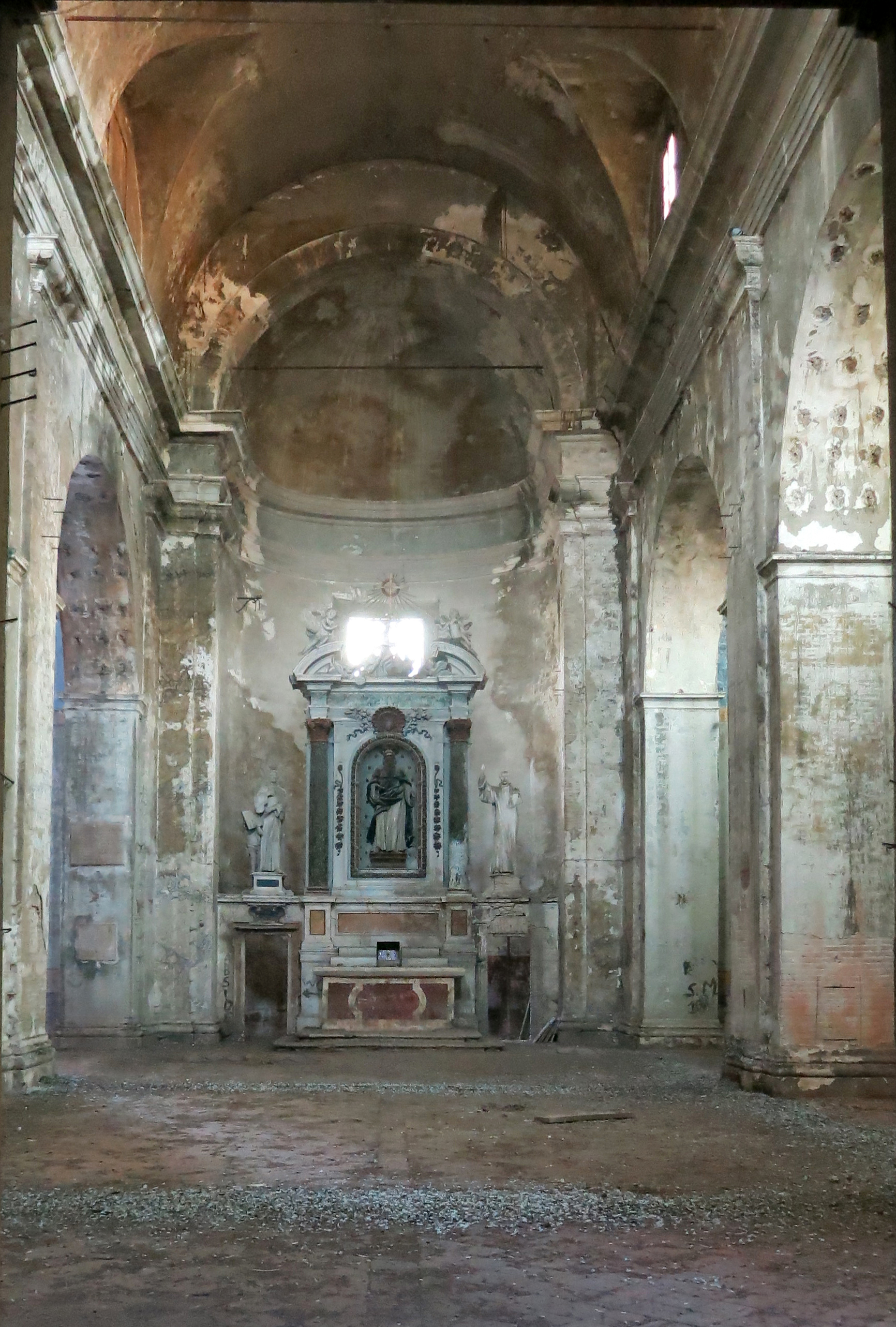 Saint Anthony the Great church. Rieti, Lazio, Italy